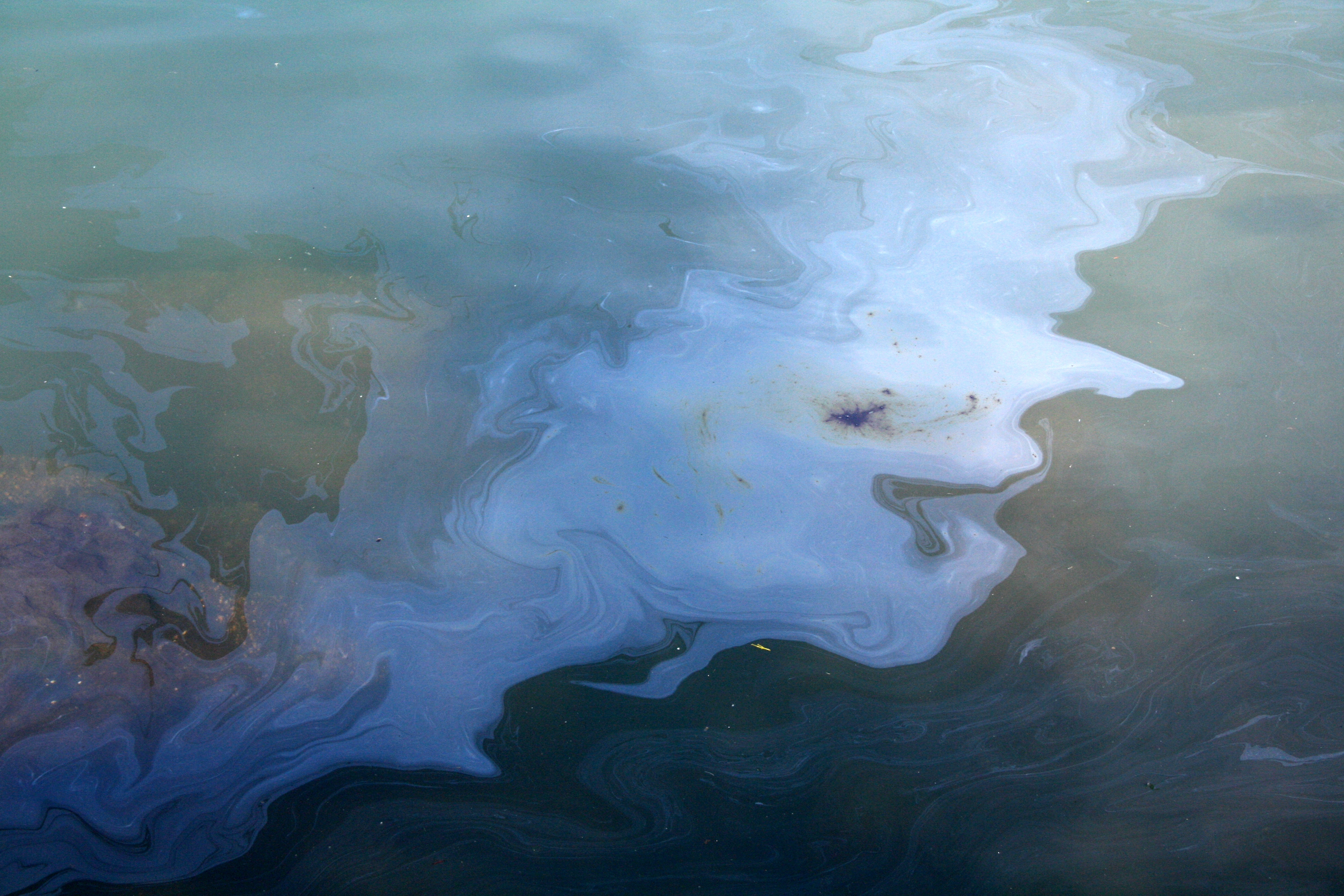 Oil Spill in San Francisco Bay. About 58,000 gallons of oil spilled from a South Korea-bound container ship when it struck a tower supporting the San Francisco-Oakland Bay Bridge in dense fog on 11/07/07.